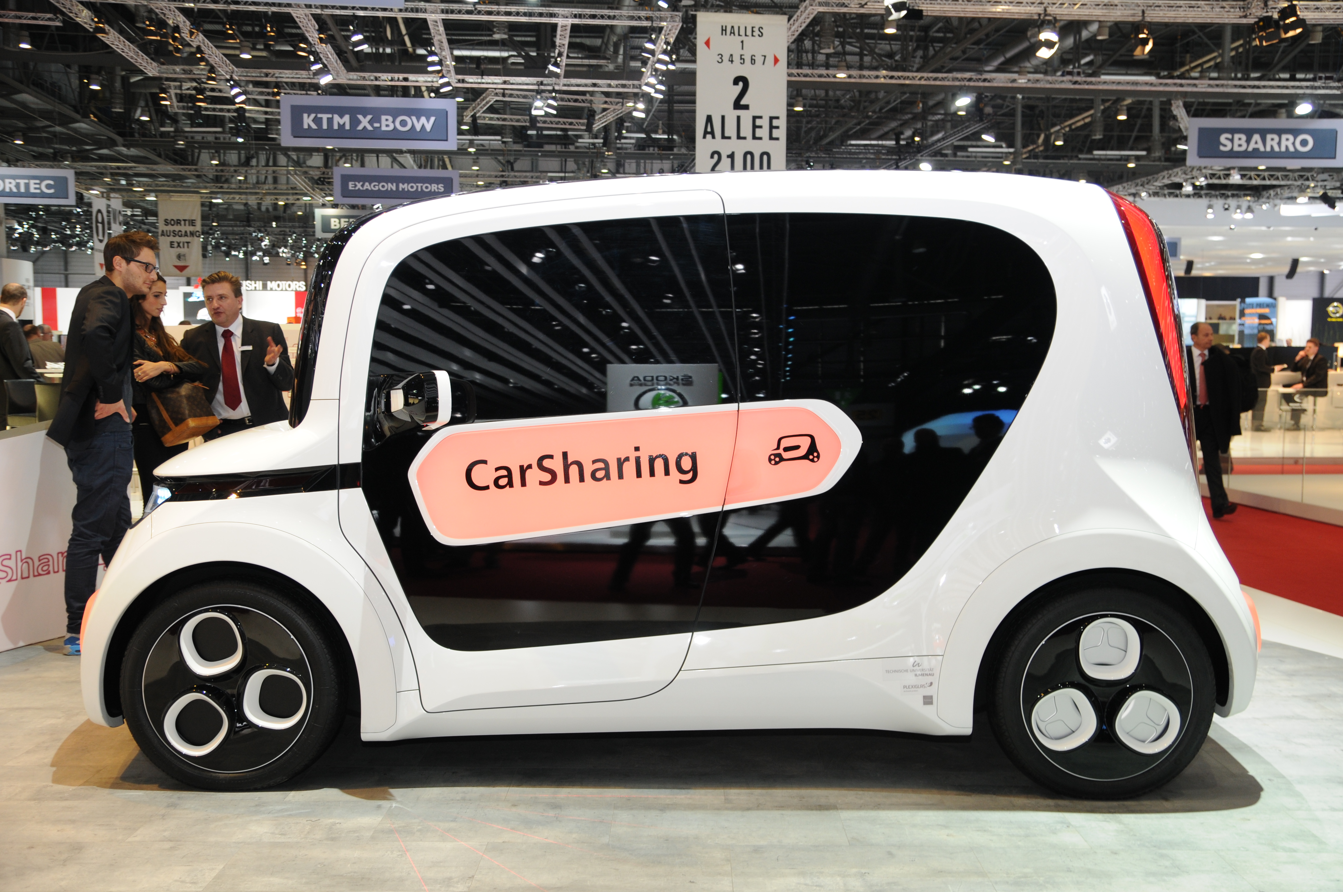 EDAG Light Car Sharing Concept in Geneva Motor Show 2013 (photos taken on the first press day)